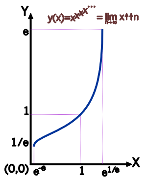 Infinite Power Tower.